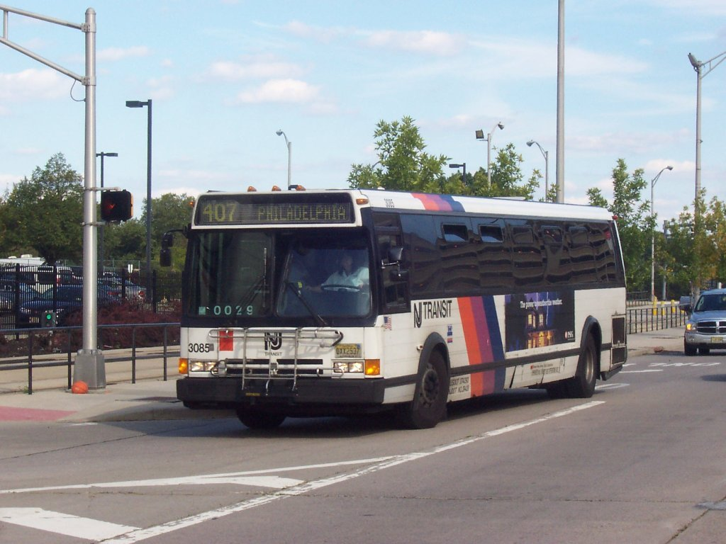 1989 New Jersey Transit Flxible Metro-B suburban 3085 in Camden, NJ on the 407 at Mickle Boulevard and the Walter Rand Transportation Center.